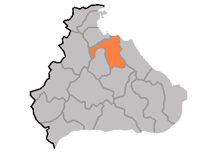 Anbyon county map